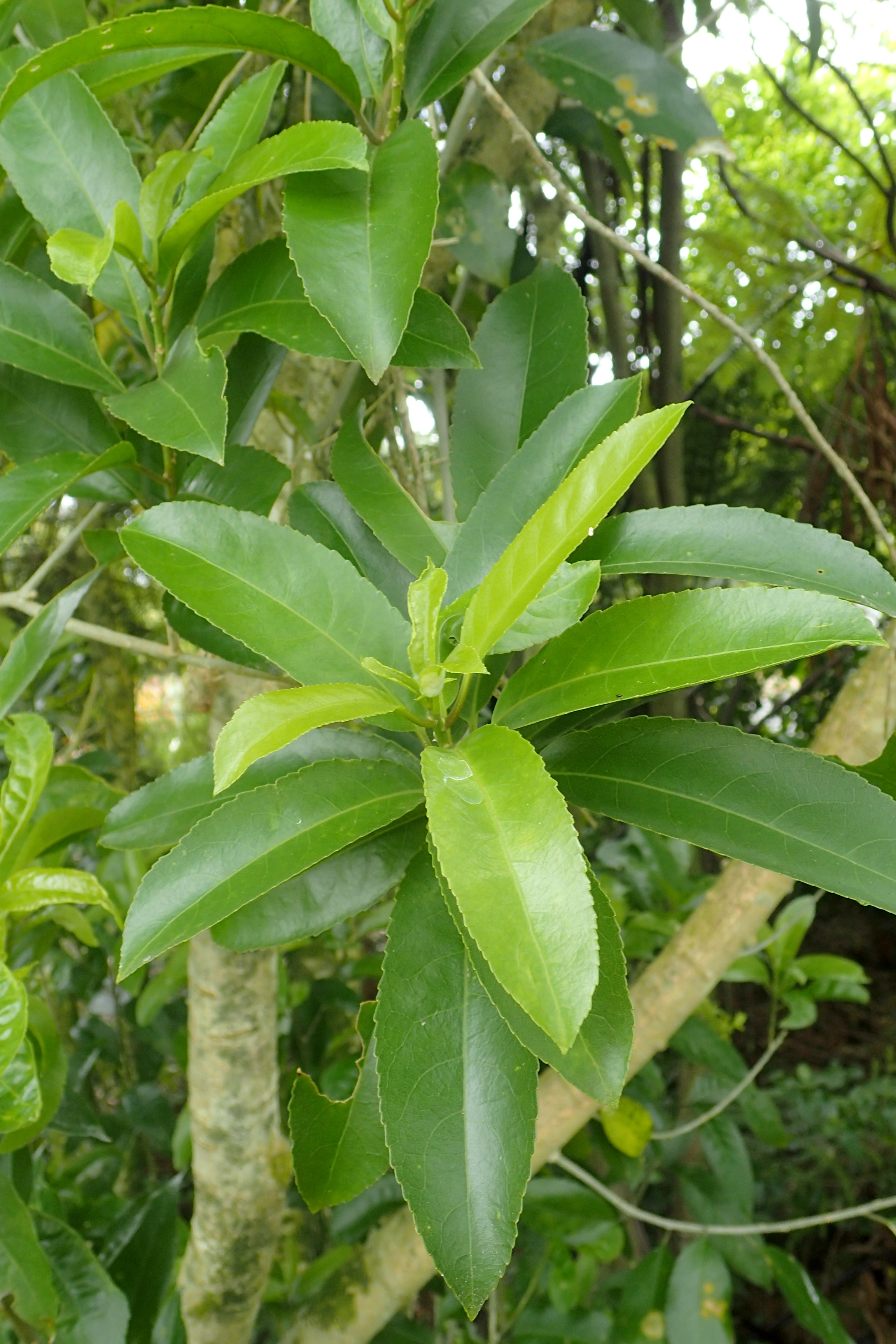 Melicytus ramiflorus in Auckland Botanic Gardens